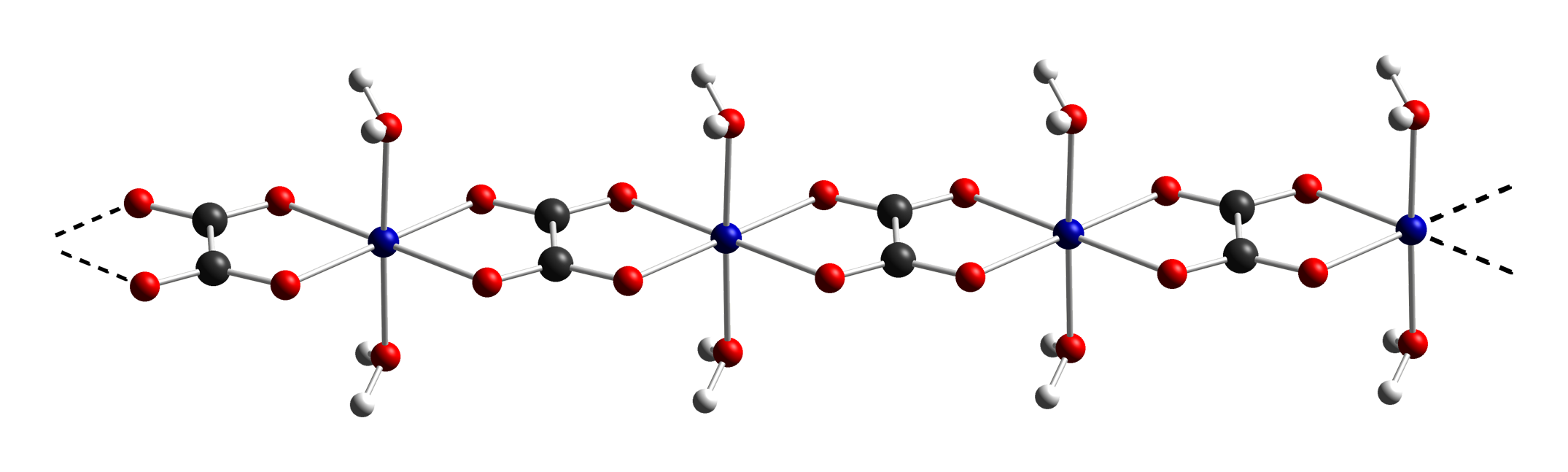 Ball-and-stick diagram of part of the crystal structure of cobalt(II) oxalate dihydrate, [Co(ox)2(OH2)2]∞. Colour code: Cobalt, Co: blue Carbon, C: black Oxygen, O: red Hydrogen, H: white Crystal structure from Acta Cryst. (2005) C61, m58-m60. Image generated in CrystalMaker 8.3.